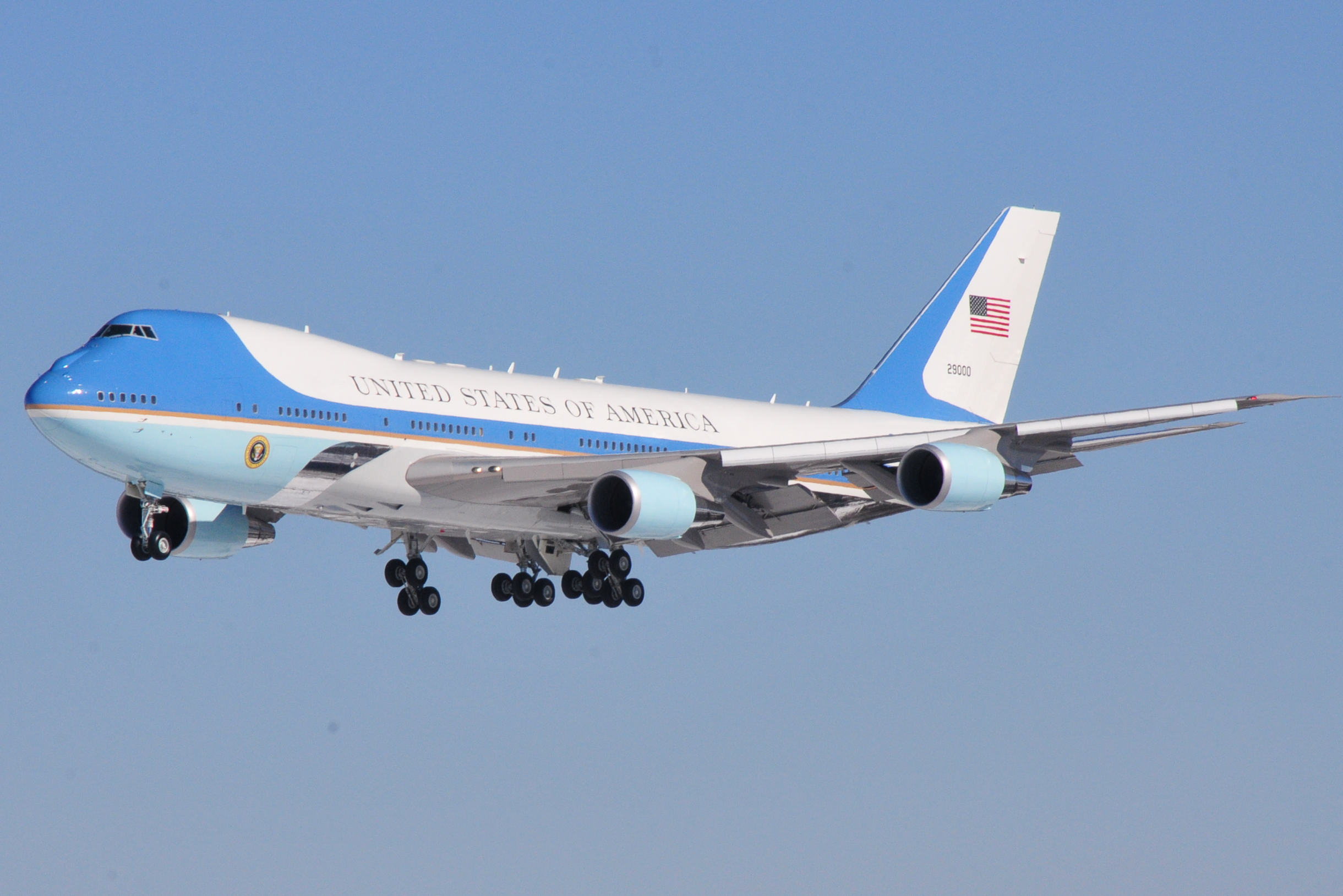 The President of the United States, Barack Obama, landed at the 171st Air Refueling Wing, Coraopolis, PA., in Air Force One at approximately 12:15pm today before traveling to the U.S. Steel plant in West Mifflin, near Pittsburgh, to deliver a speech as part of a two-day tour used to promote his proposals given during the State of the Union address.